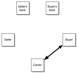 Letter of credit diagram